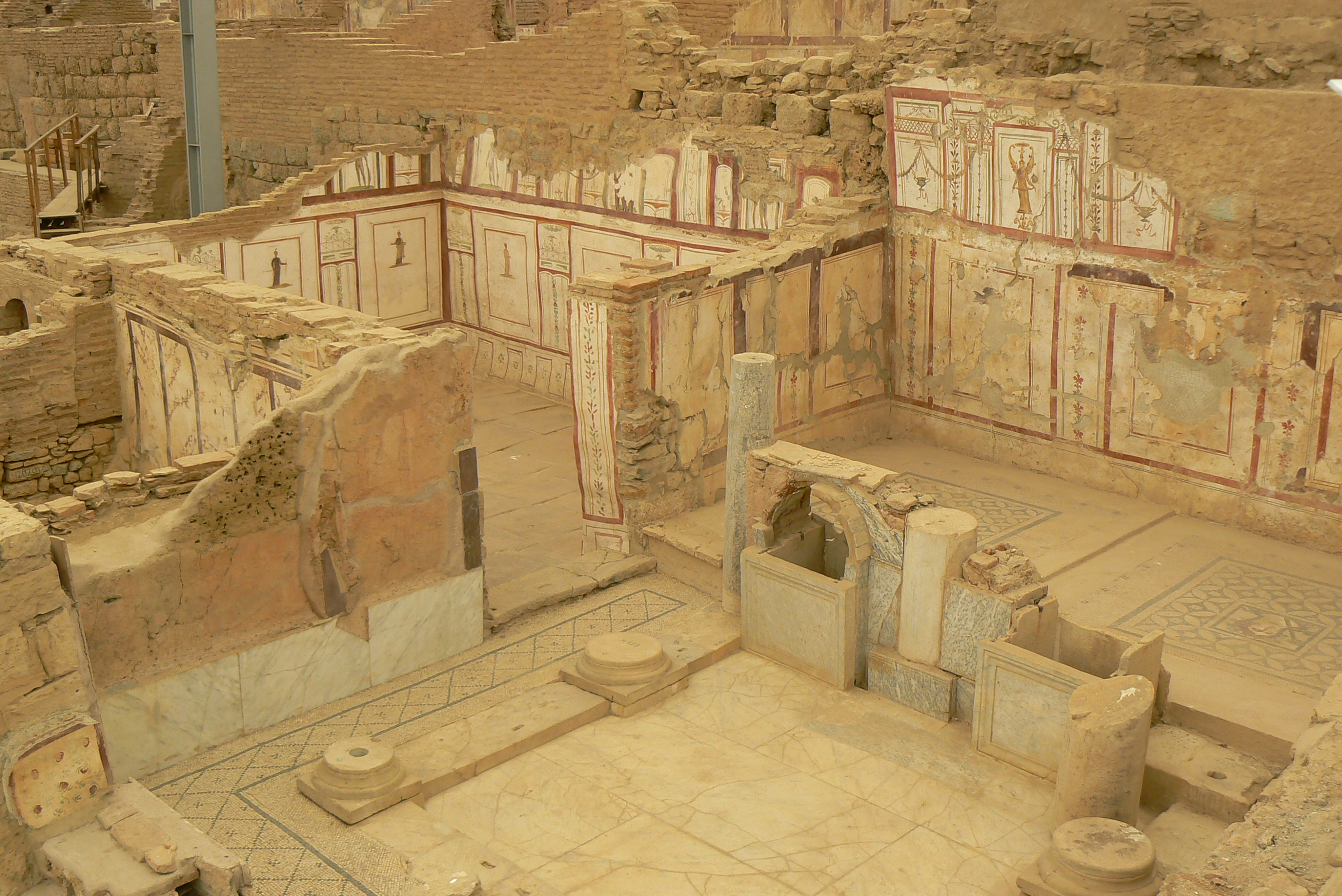 Ephesus, Terrace house